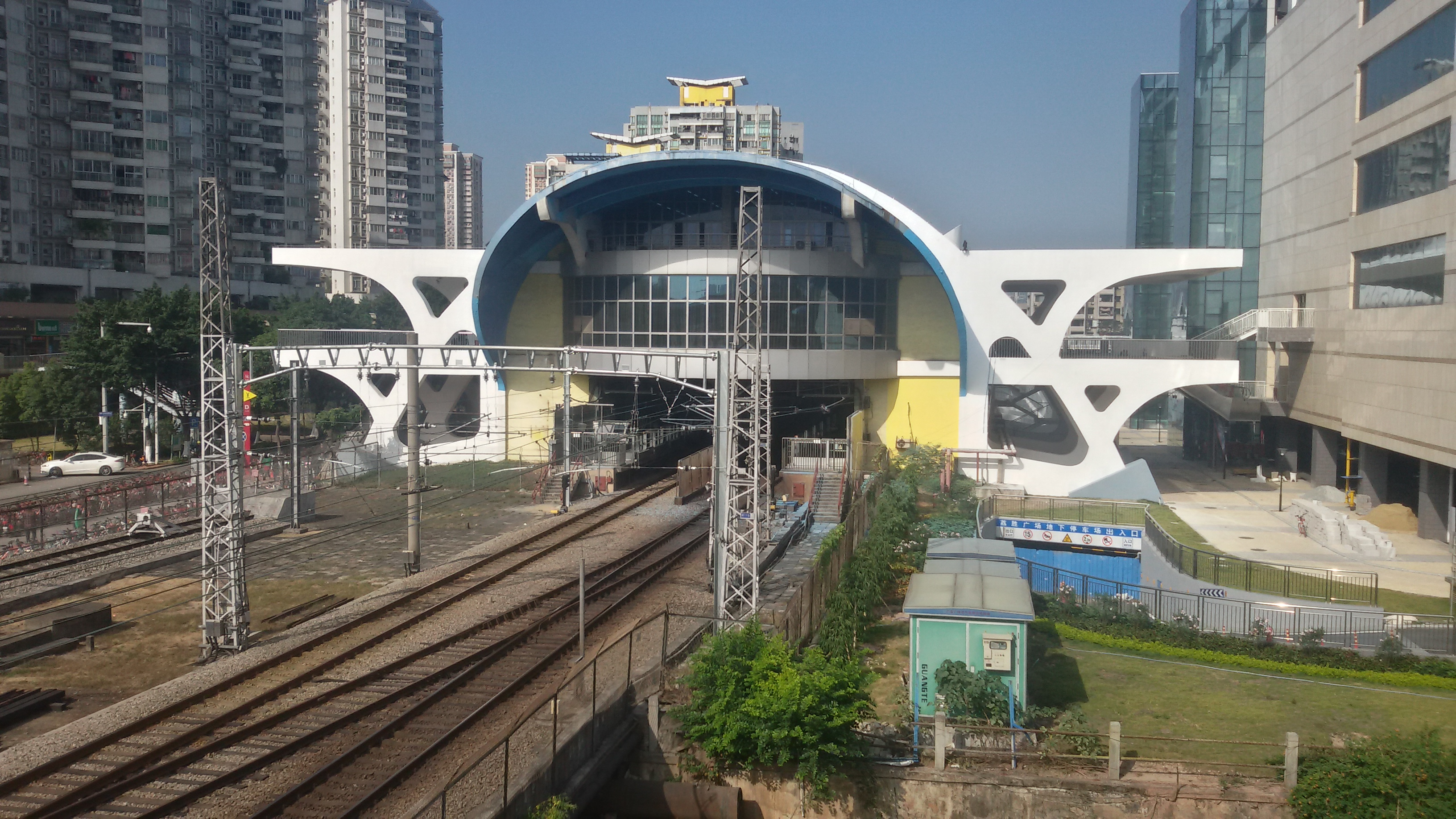 Station Surface for Kengkou Station in Guangzhou Metro.